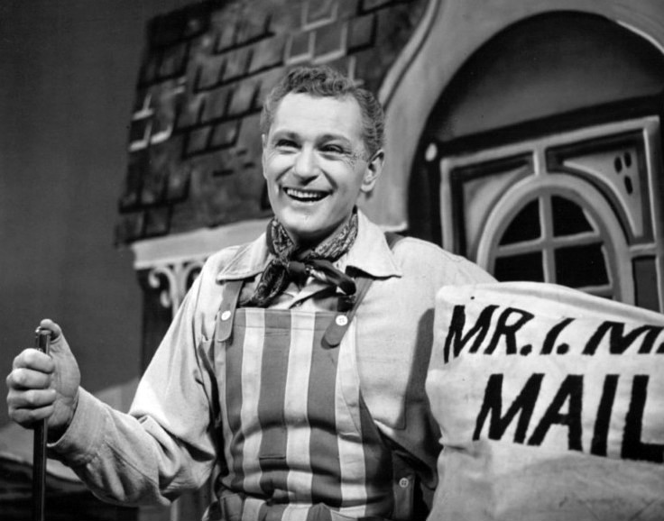 Paul Tripp publicity photo from the television program Mr. I-Magination.